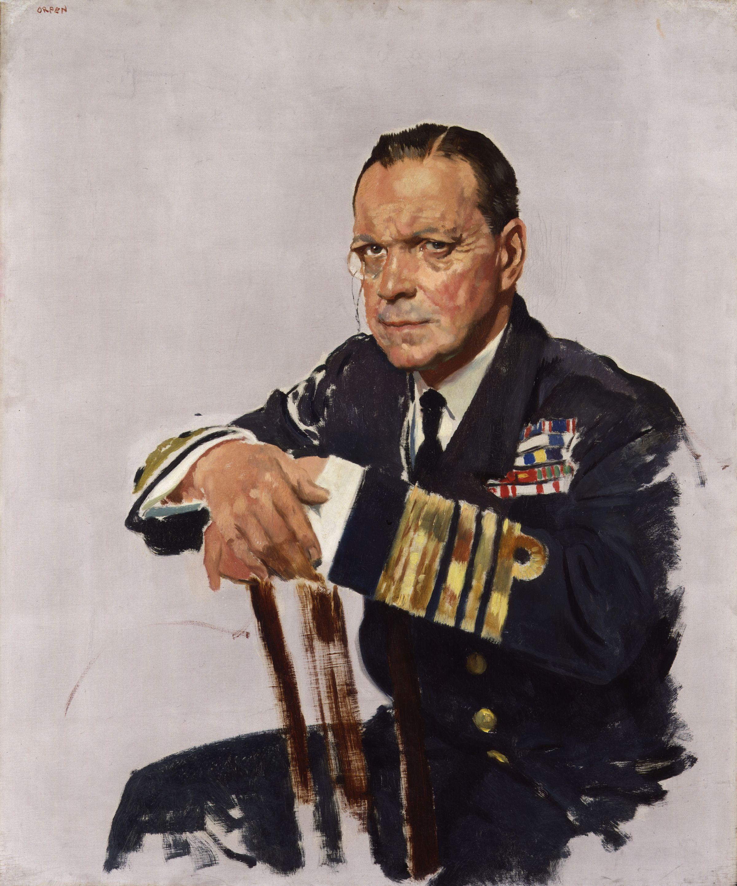 Rosslyn Erskine Wemyss, Baron Wester Wemyss, by Sir William Orpen (died 1931), given to the National Portrait Gallery, London in 1960. Admiral of the Fleet Rosslyn Erskine Wemyss, 1st Baron Wester Wemyss, GCB, CMG, MVO (12 April 1864 – 24 May 1933), known before 1919 as Sir Rosslyn Wemyss, served in active naval command positions during the First World War, with postings to the Mediterranean and Egypt, and was appointed First Sea Lord in December 1917. All images in this batch have been confirmed as author died before 1939 according to the official death date listed by the NPG.